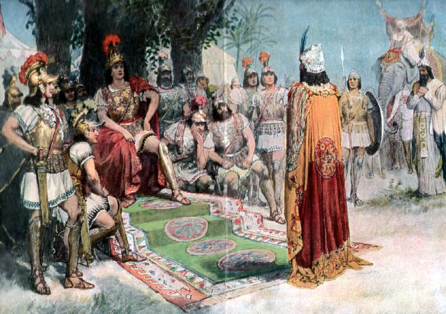 Alexander meets Porus. Illustration from: Müller-Baden, Emanuel (Hrsg.): Bibliothek des allgemeinen und praktischen Wissens, Bd. 1. - Berlin, Leipzig, Wien, Stuttgart: Deutsches Verlaghaus Bong & Co, 1904